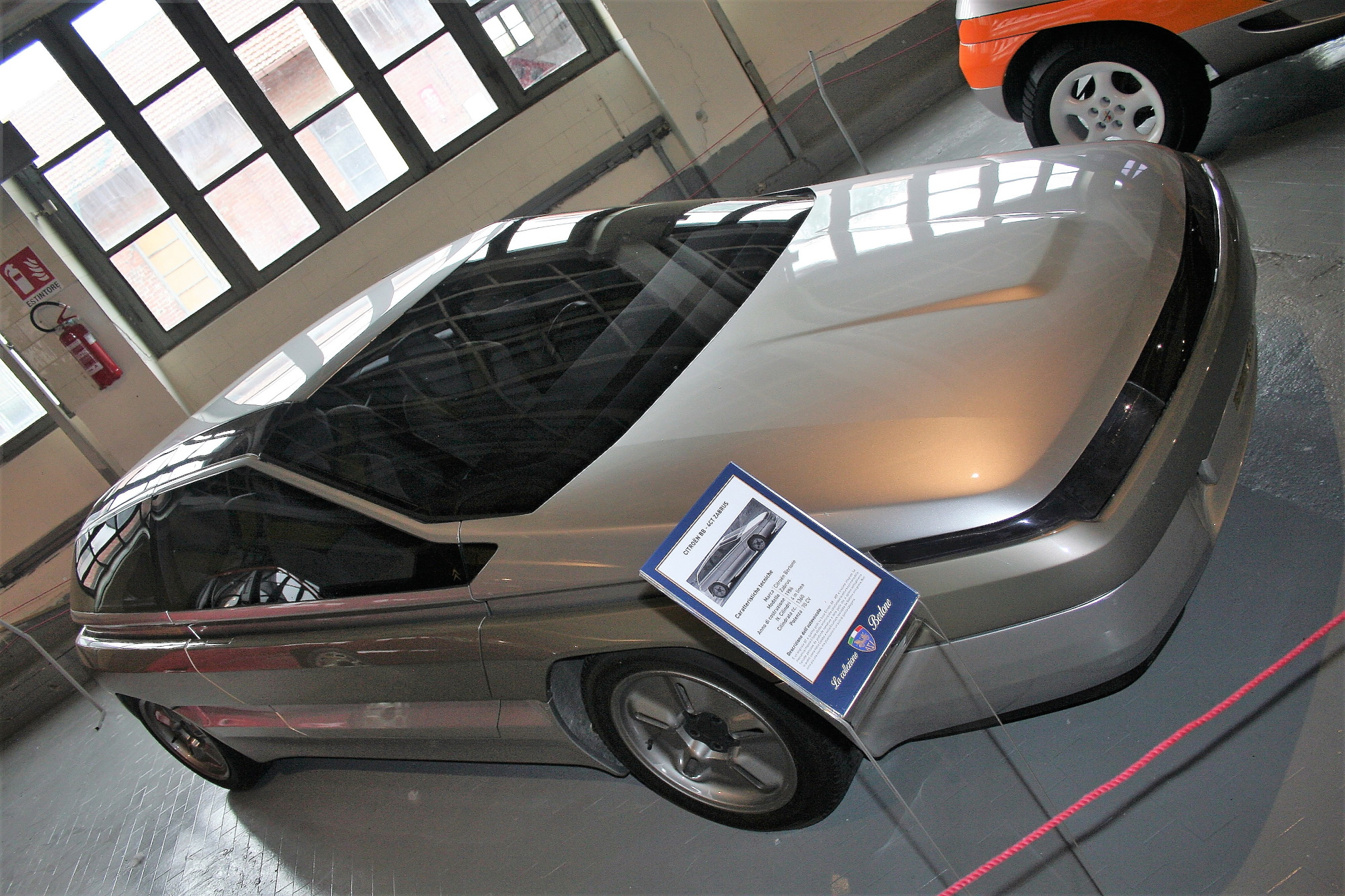 1986 Citroën Zabrus by Bertone. At the Bertone collection of the Automotoclub Storico Italiano (ASI), located in Volandia outside of Milan (by the Malpensa airport and museum areas